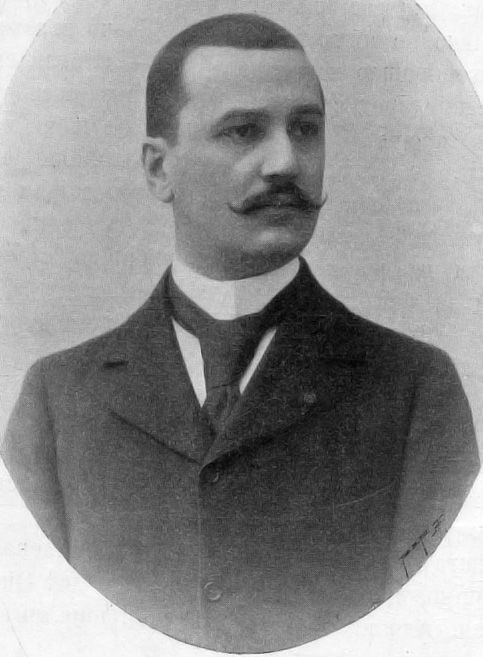 Svetislav Jovanović, photograph published in Nova iskra 20-21 (1899).